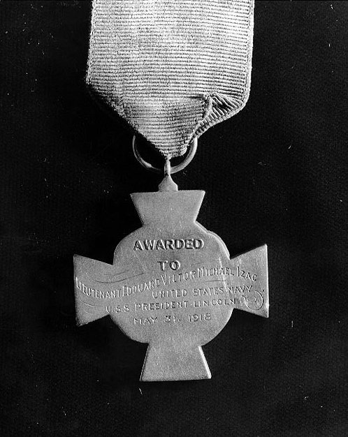 Reverse of a "Tiffany Cross" pattern Medal of Honor awarded to Lieutenant Edouard V.M. Izac for heroism following the sinking of USS President Lincoln on 31 May 1918. The text reads: AWARDEDTOLIEUTENANT EDOUARD VICTOR MICHAEL IZACUNITED STATES NAVYU.S.S. PRESIDENT LINCOLNMAY 31, 1918